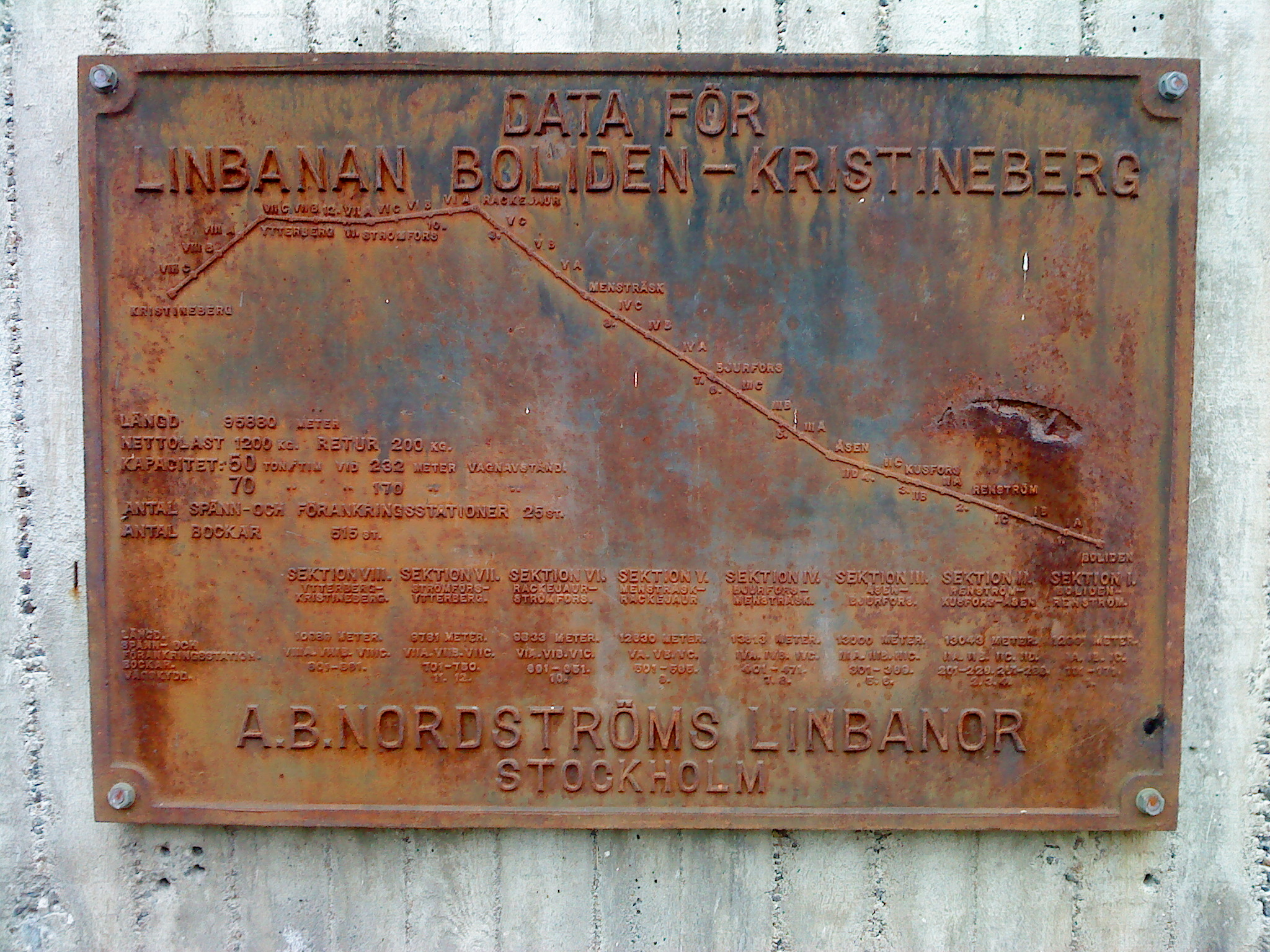 "Data for the aerial tramway between Kristineberg and Boliden", the worlds longest aerial tramway established in 1943 (Västerbotten county, Sweden). Rusty sign in the village of Renström, on the nowadays abandoned part of the tramway.